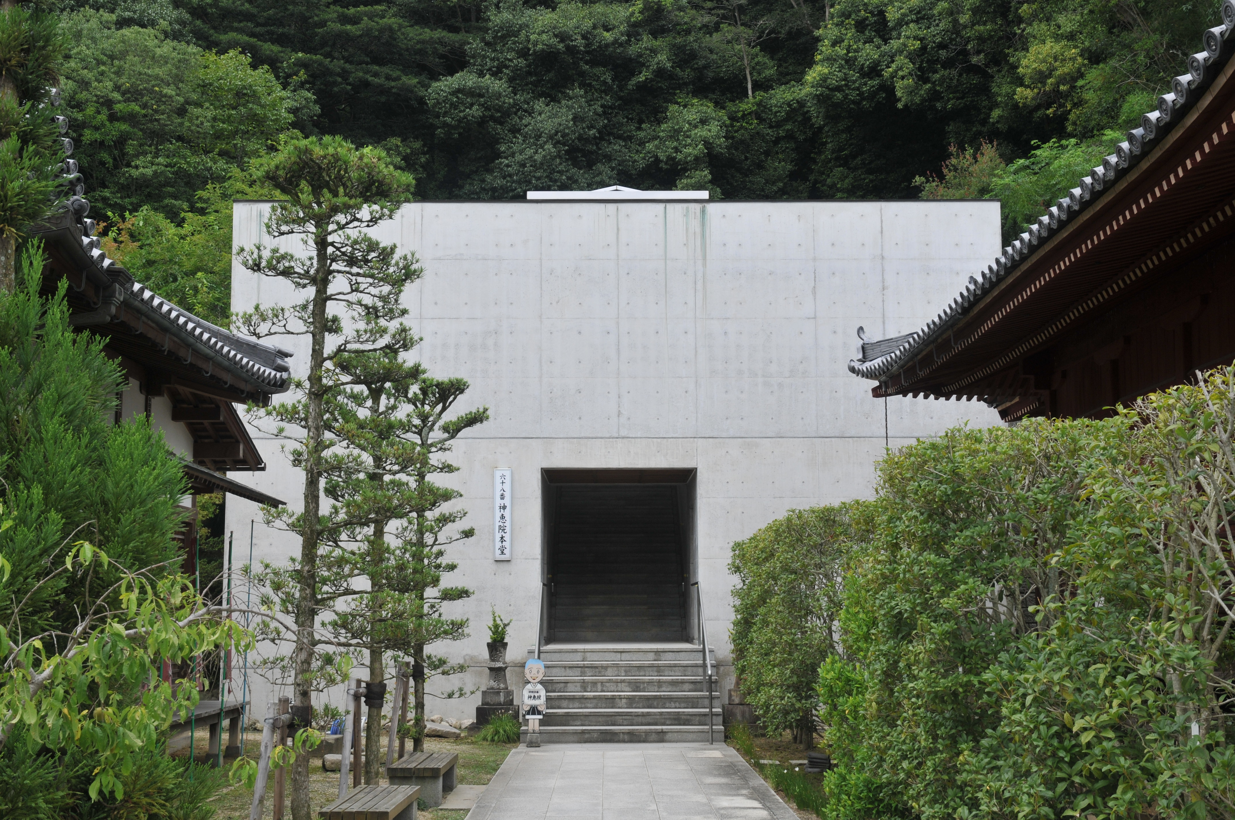 Entrance of main temple, Jinne-in